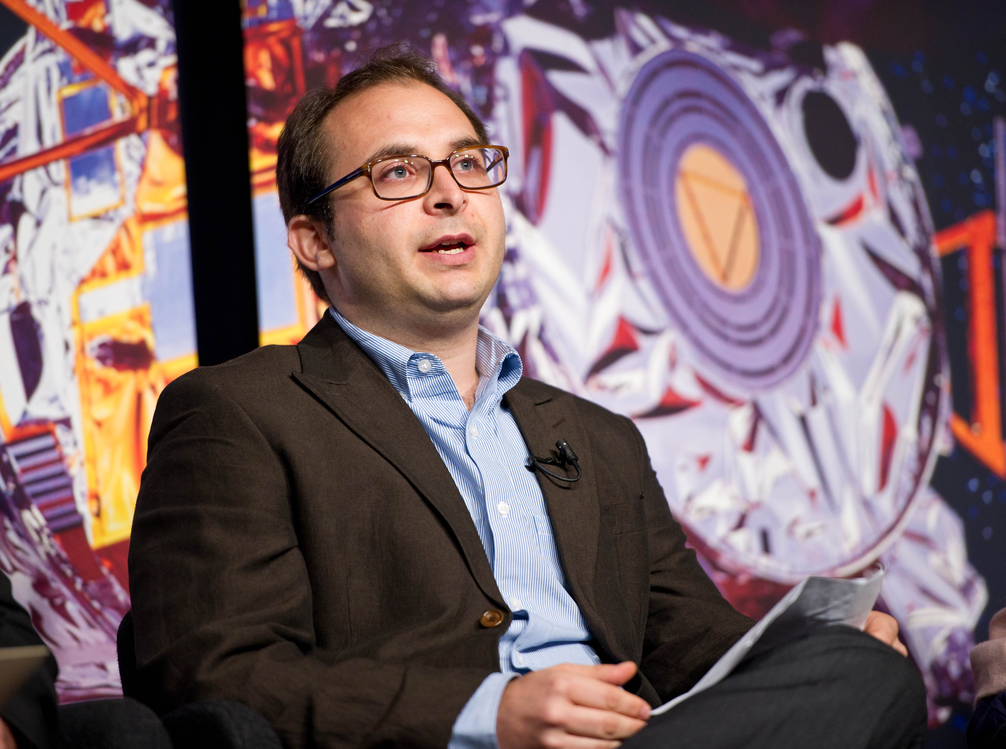 Kevin Schawinski, astrophysicist, Yale University speaks at a press conference announcing black hole findings by NASA's Chandra X-ray Observatory, Wednesday, June 15, 2011 in Washington. Using the deepest X-ray image ever taken, Chandra discovered massive black holes were common in the early universe.